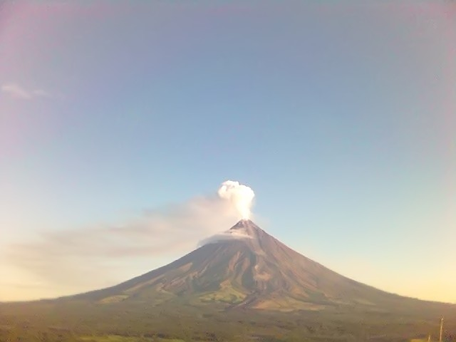 from Image:MayonVolcano.jpg Author: Six, uploaded by Sixtango4 at 05:47, 7 September 2006